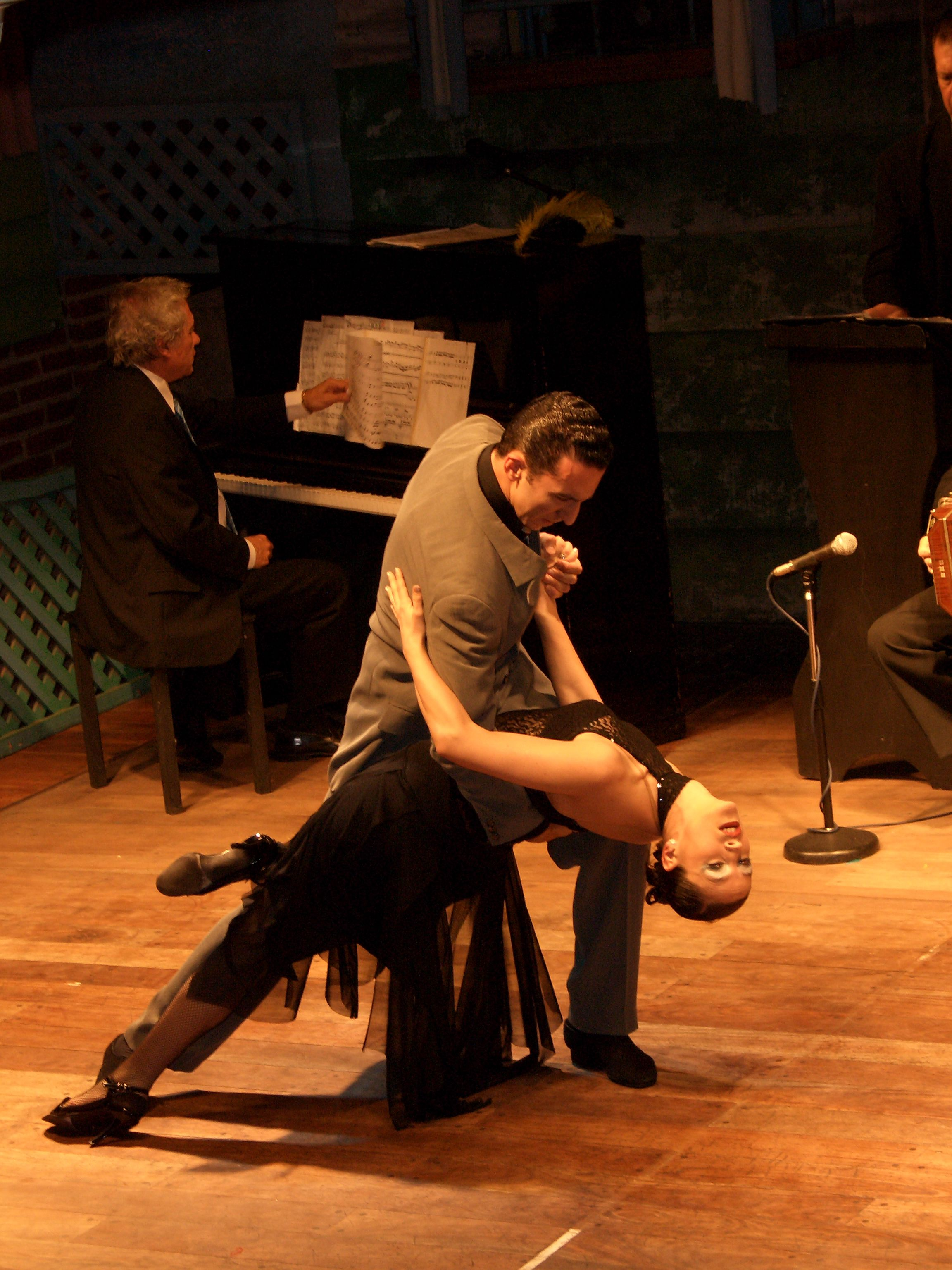 Tango show in Buenos Aires